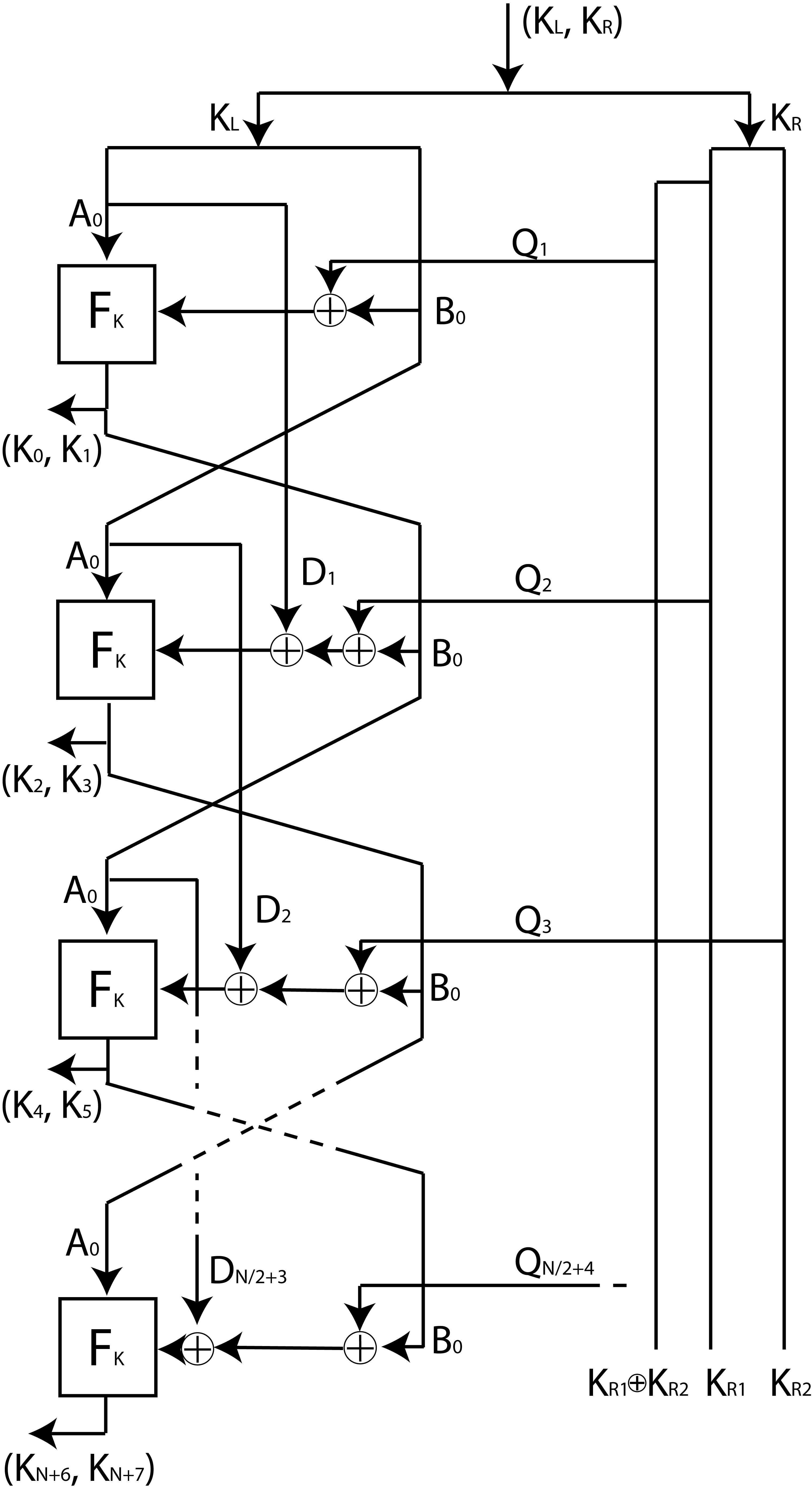 A scheme of key scheduling